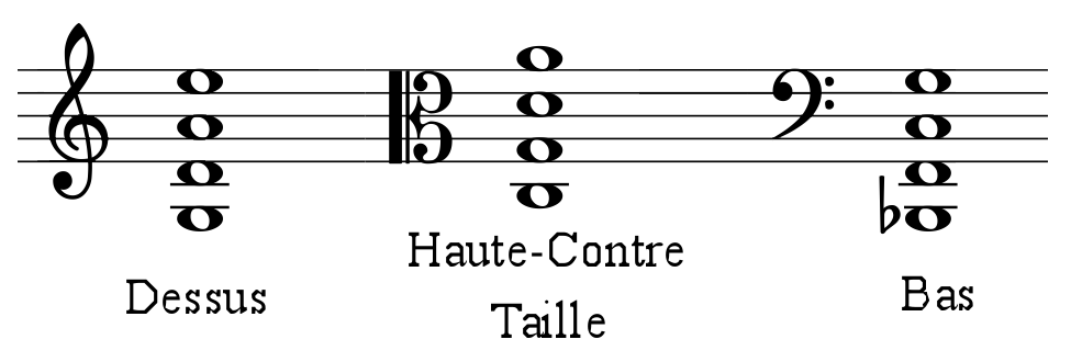 Tunings of violin family as reported by Jambe de Fer in Epitome Musicale (1556).